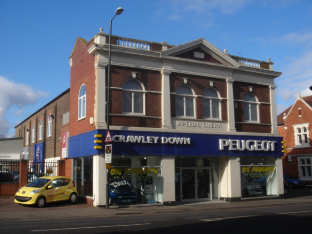 The former Imperial Cinema, Crawley, West Sussex. Built in 1911 and rebuilt after it burnt down in 1928. The opening of the Embassy Cinema in the town centre (which is now Bar Med) caused this less-centrally located competitor to decline, and it passed through various uses before becoming a car dealership/showroom/garage, which it has now been for far longer than it was ever a cinema. Note the small pediment and the "IMPERIAL CINEMA" wording on the entablature.